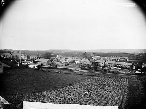 1 negative : glass, dry plate, b&w ; 16.5 x 21.5 cm.